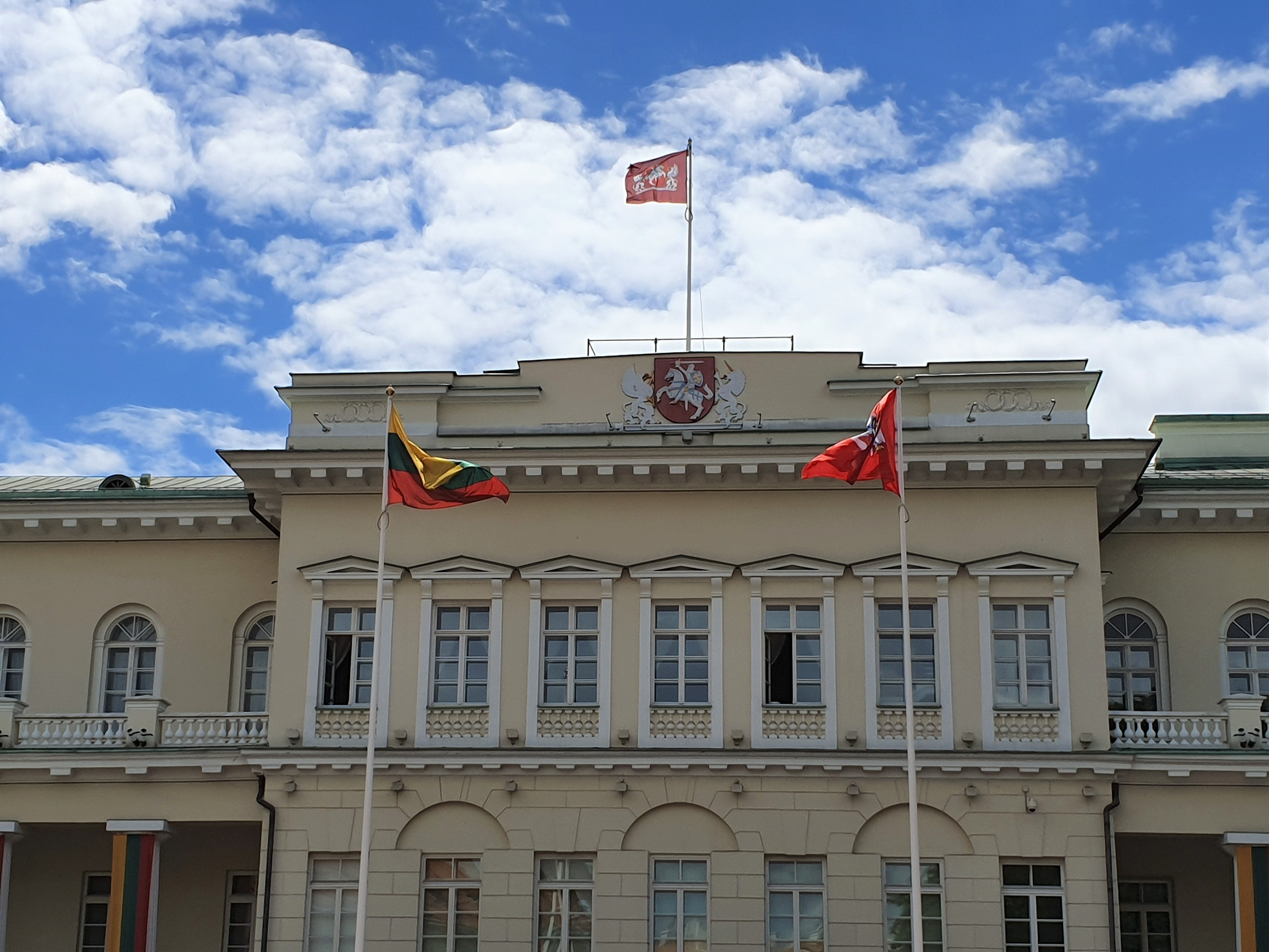 Flag of the President of Lithuania above the Presidential Palace in Vilnius.